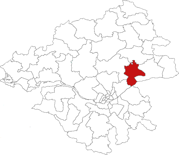 Map of canton of France : Canton de Ligné, Loire-Atlantique, France